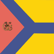 Kirovohrad Flag, created by me, free to use